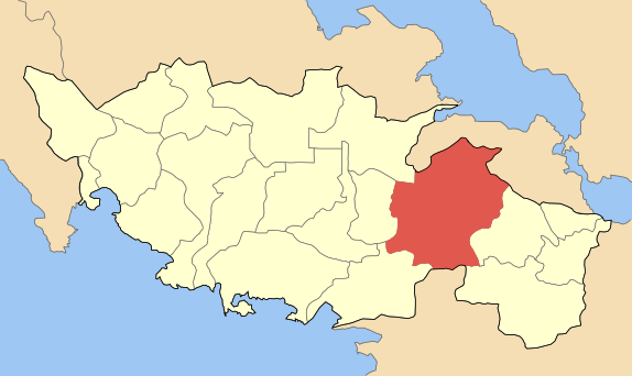 Locator map of Thiveon municipality (Δήμος Θηβαίων) at Voiotias perfecture, Greece.